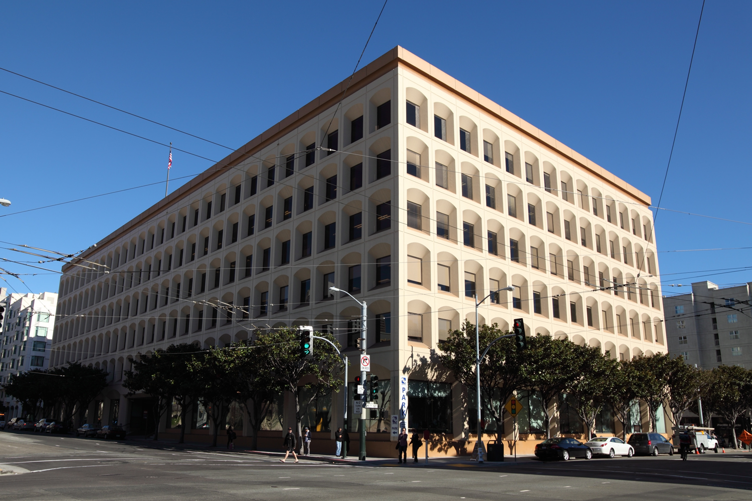 Twitter headquarters at 1355 Market Street, San Francisco